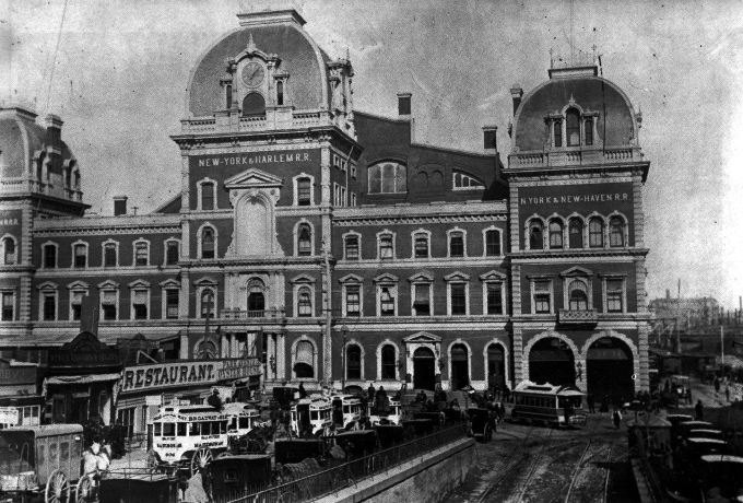 View of Grand Central Depot, New York City. The text cut off to the left is for the New York Central and Hudson River Railroad.